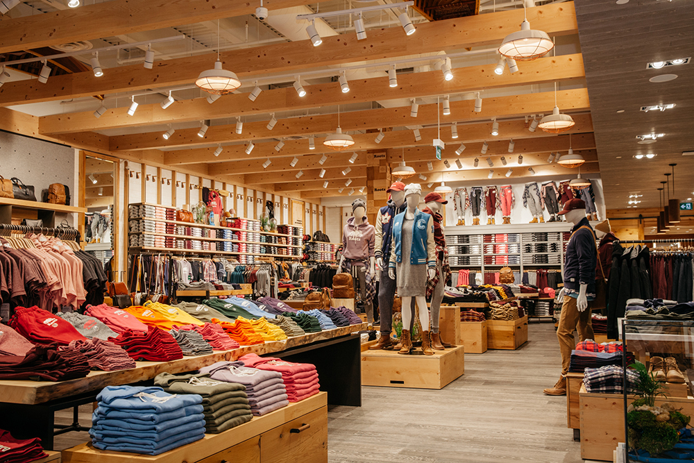 Roots product on display